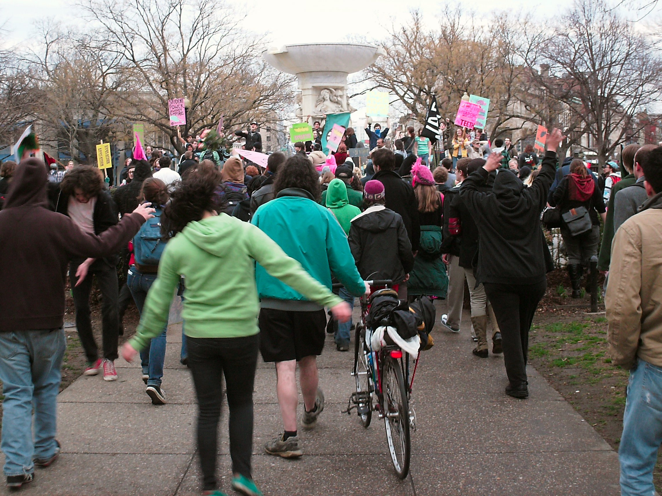 A crowd of demonstrators gathers around the fountain in Dupont Circle at the end of Funk the War 7, an anti-war protest sponsored by the DC chapter of Students for a Democratic Society.